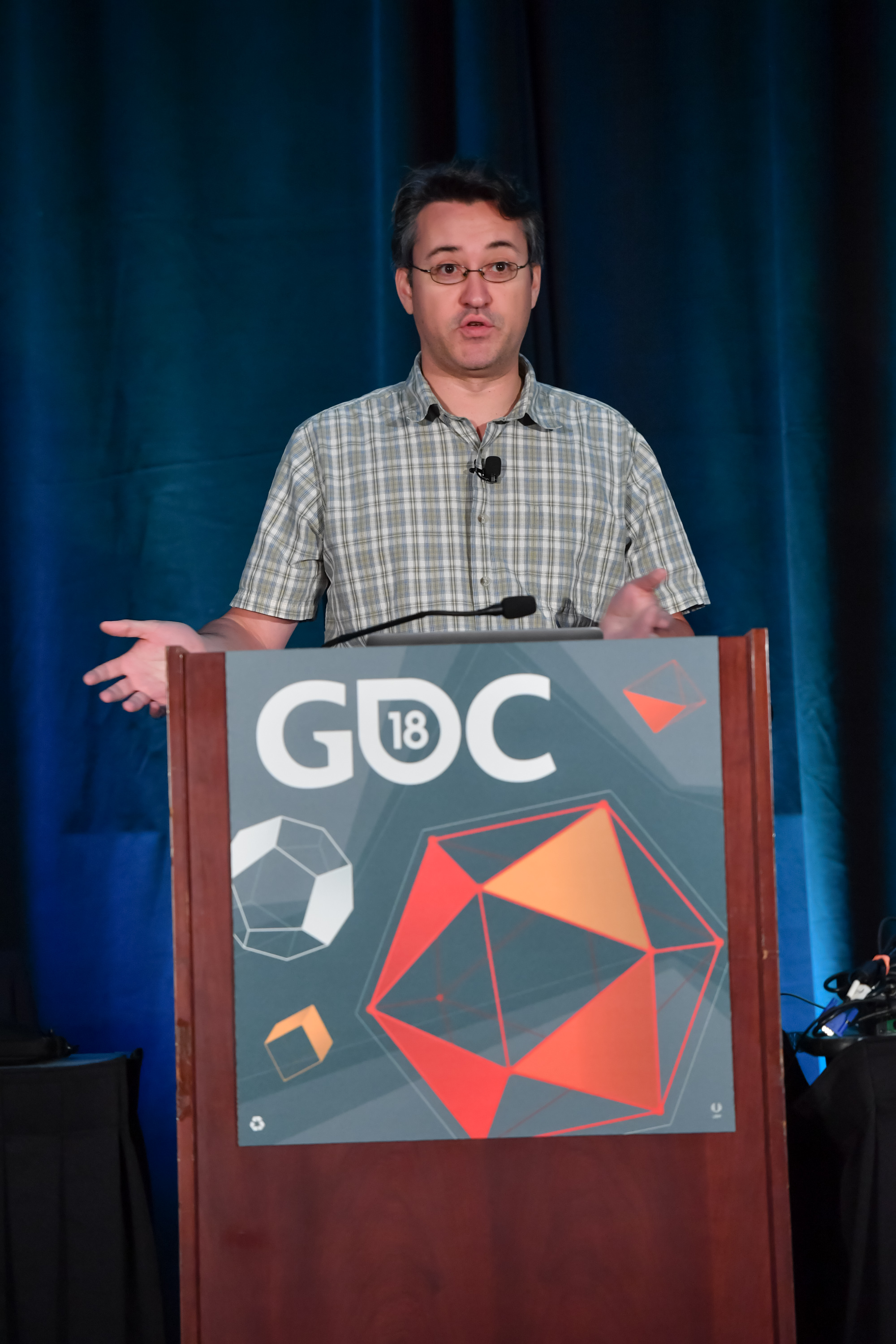 Zack Johnson of Asymmetric Publications at the Game Developers Conference 2018 (March 20-22, 2018, San Francisco, CA)